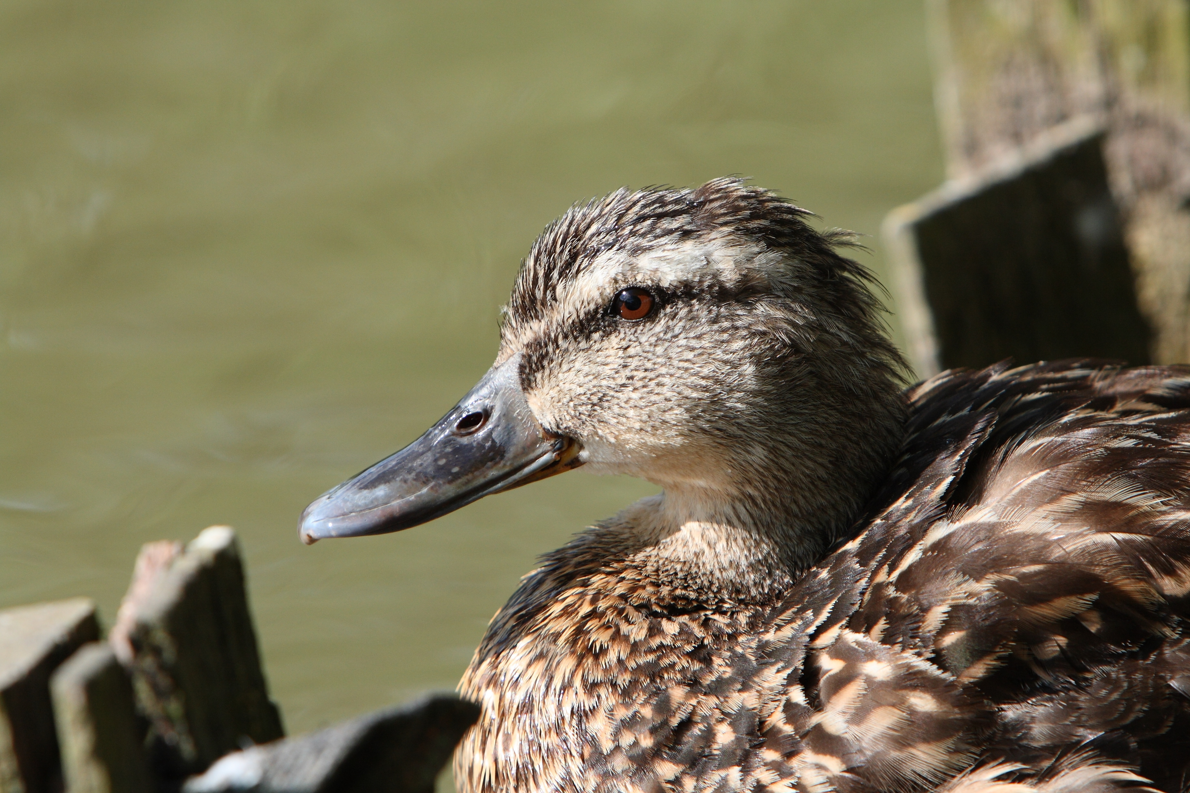 Portrait of a female Mallard, taken in Chevreuse, Île de France